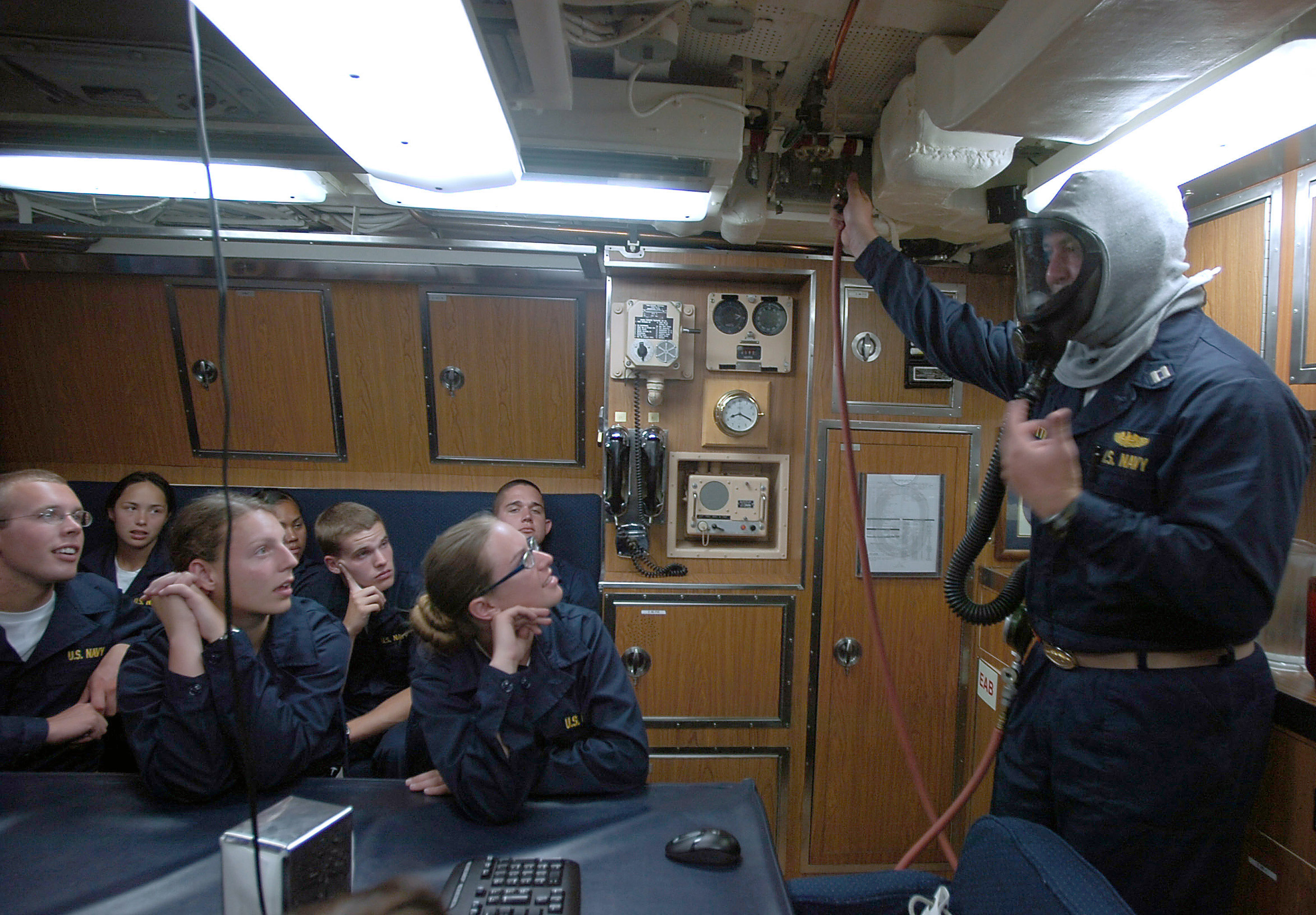 PACIFIC OCEAN (July 27, 2007) - Midshipmen are instructed on the proper way to don an Emergency Air Breather (EAB) aboard the Los Angeles-class attack submarine USS Helena (SSN 725). Twenty midshipmen from universities across the U.S. spent a day and night underway on Helena as part of their summer training to aid them in choosing a future naval career path. U.S. Navy photo by Mass Communication Specialist 2nd Class Stephanie Tigner (RELEASED)